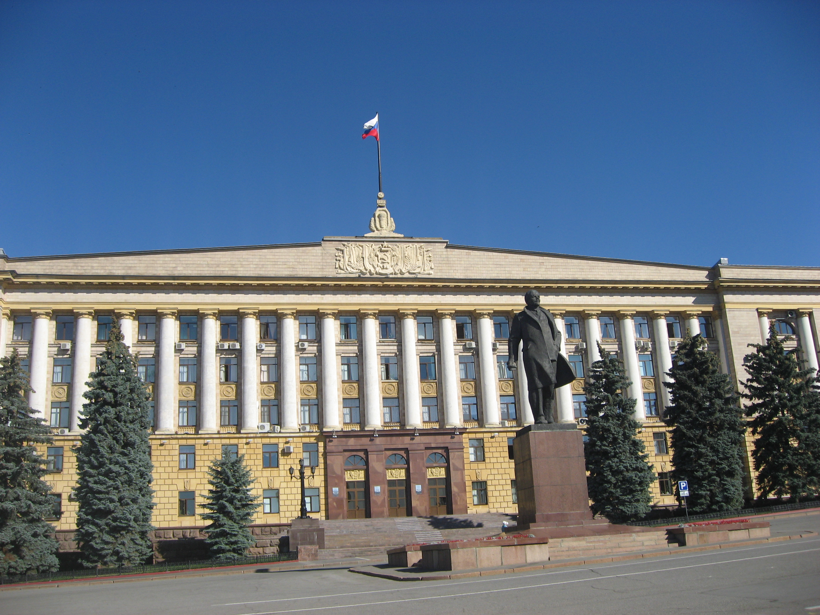 Administration of the Lipezk Region